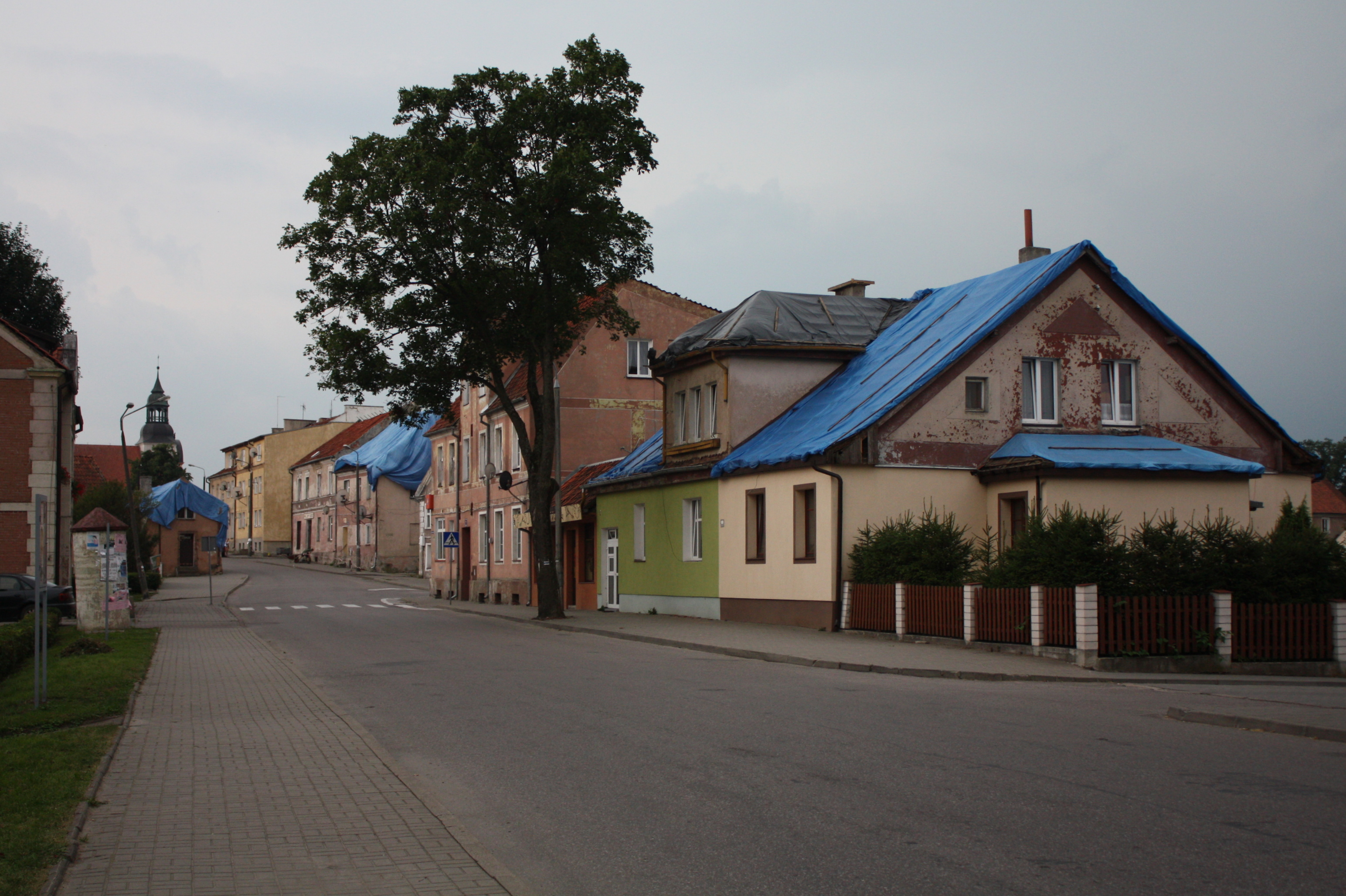 This photo of Warmian-Masurian Voivodeship was taken during Wikiexpedition 2012 set up by Wikimedia Polska Association.You can see all photographs in category Wikiekspedycja 2012. The making of this document was supported by Wikimedia Polska.